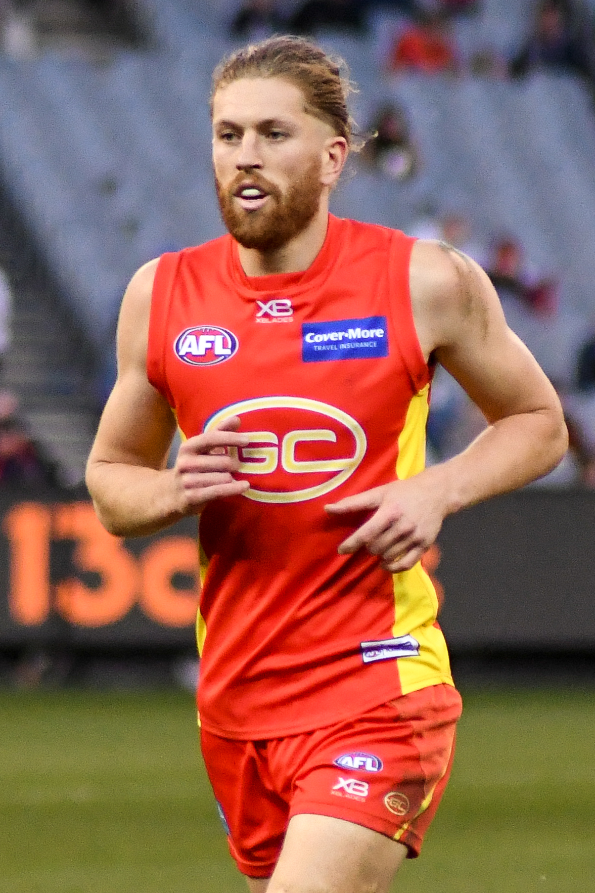 Aaron Young of Gold Coast during the 2018 AFL round 20 match between Melbourne and Gold Coast at the Melbourne Cricket Ground on Sunday, 5 August 2018 in Melbourne, Victoria.